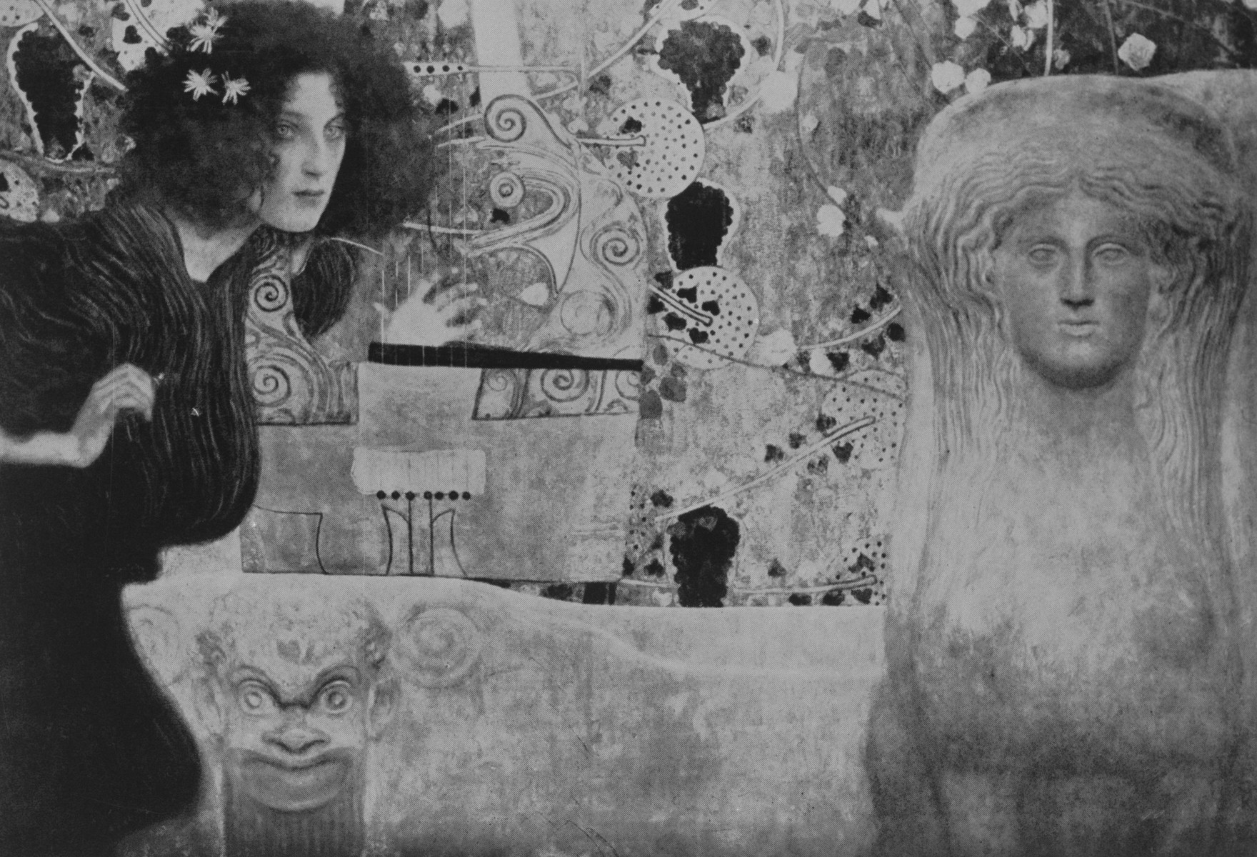 Die Musik II